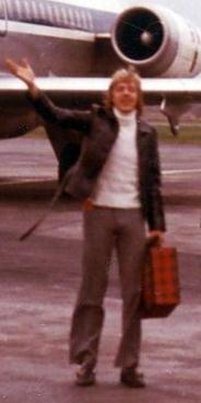 Swedish singer Ulf Källvik, as released by image owner Lars Jacob Prod Place: Bromma Airport, Stockholm, Sweden